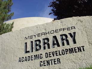 Meyerhoeffer Library at College of Southern Idaho Photographer: Daniel Alderman